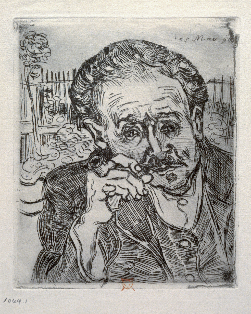 Portrait of Paul Ferdinand Gachet